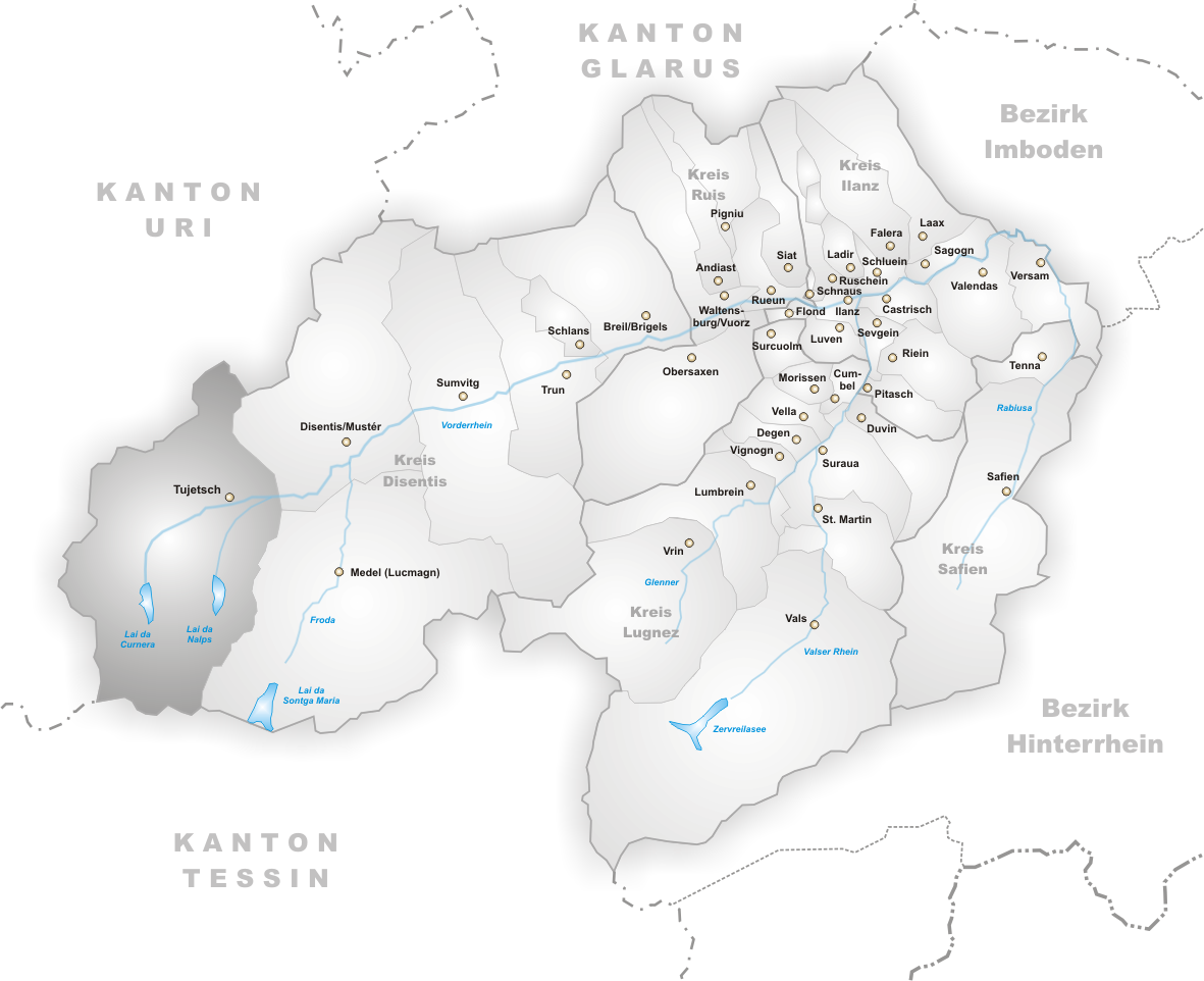 Municipality Tujetsch